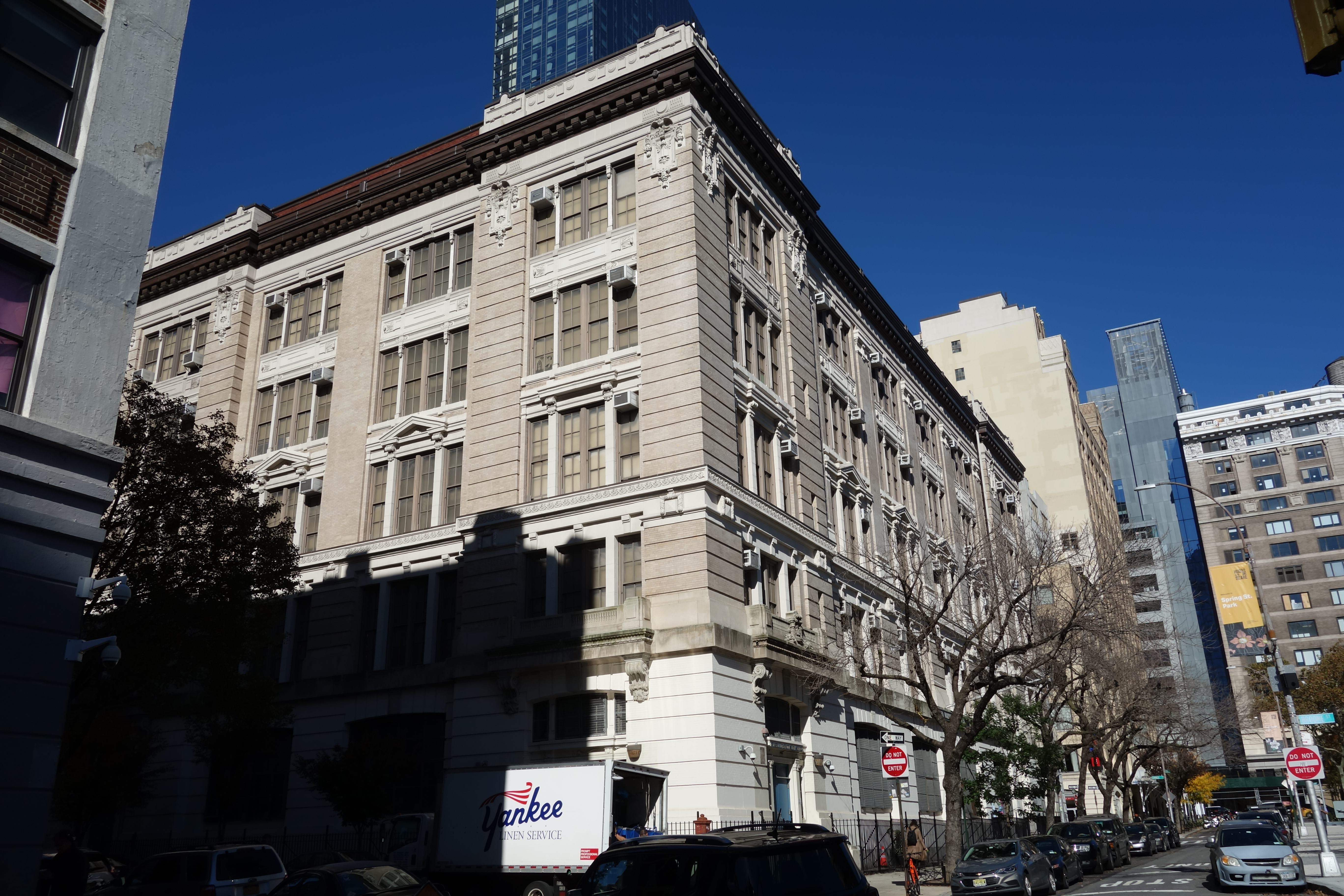 Looking north at Chelsea Career and Technical High School (Chelsea Vocational High School), at the northwest corner of 6th Avenue and Broome Street in SoHo / Hudson Square, Manhattan. The building is not actually located in the Chelsea, which is farther north around 23rd Street. The 1905-built building was originally an elementary school, and shares the general size and dimensions of other old elementary schools in the city.